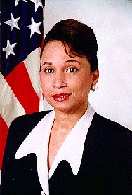 Alexis Herman from DOL website